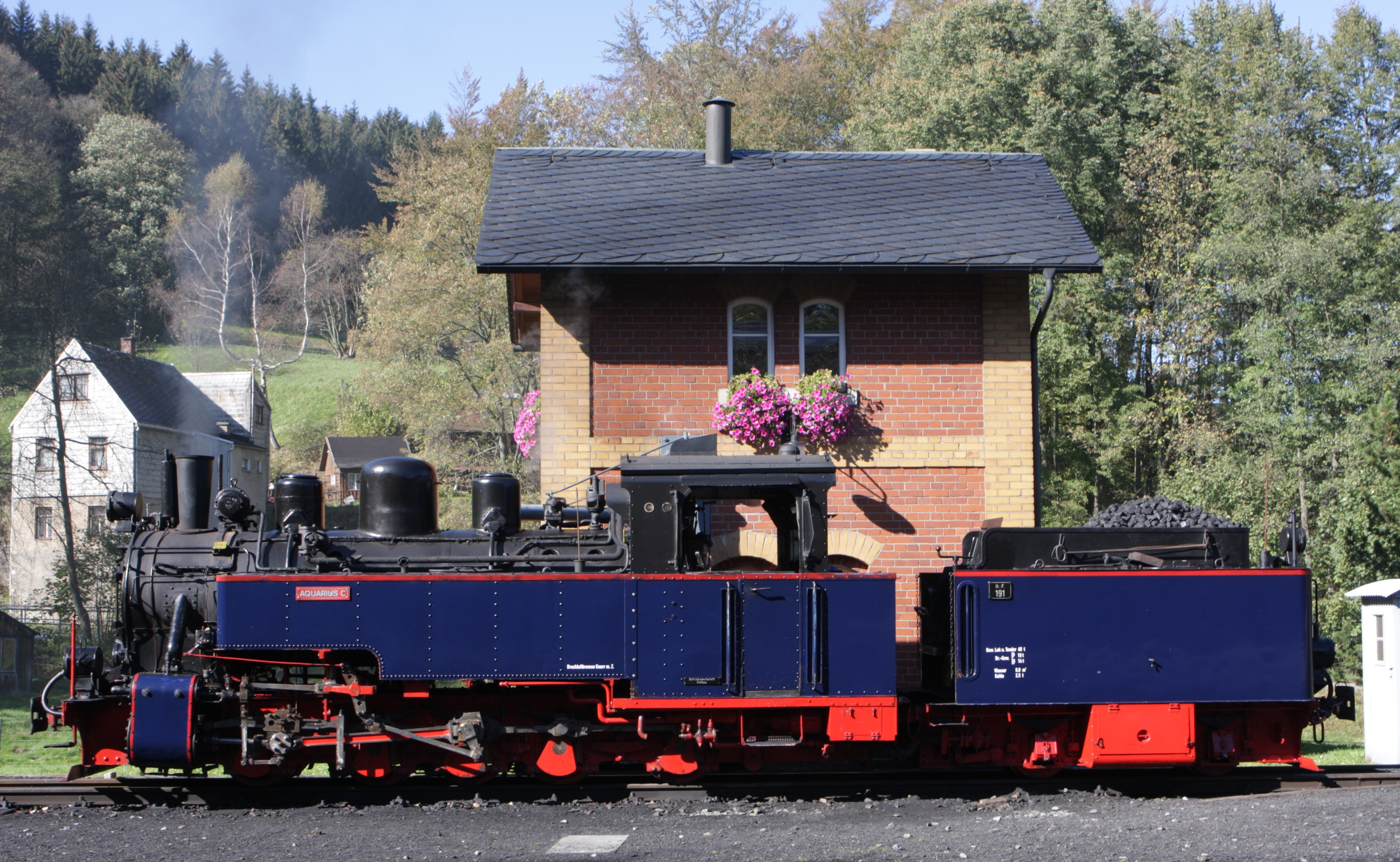 Aquarius C in Steinbach (Preßnitztalbahn)